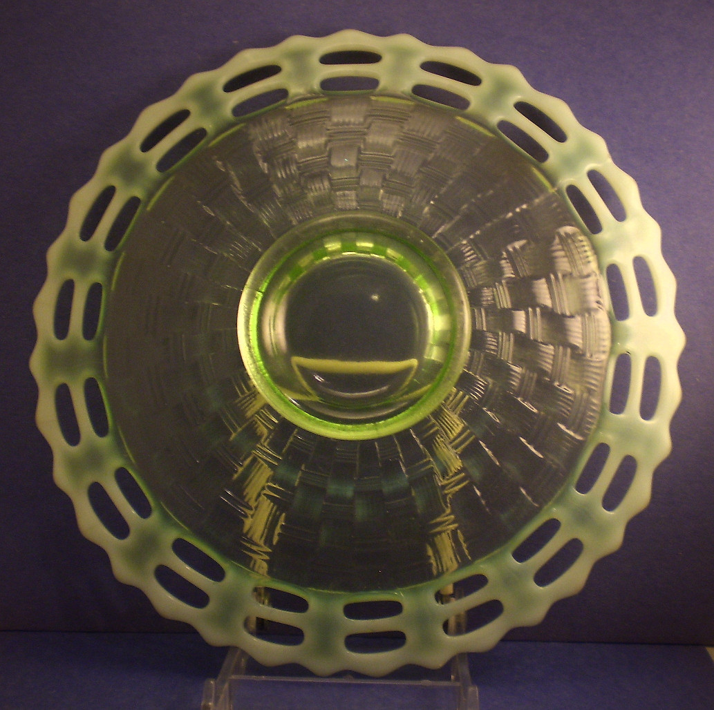 This is a Basket weave plate made by the Fenton art glass company about 1945. There are no copyright notices or marks on the piece. It is about 7.5 inches across. The color is Green opalescent.